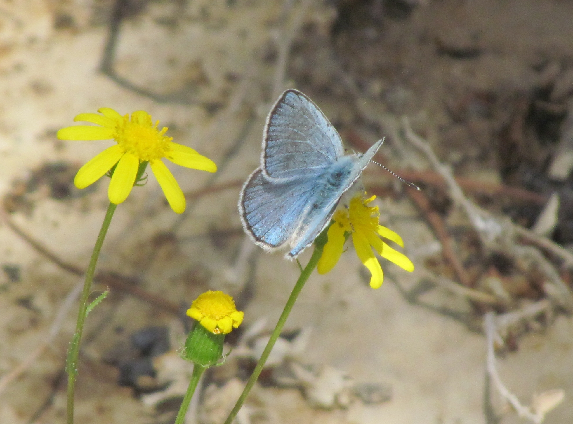 כחליל הקרקש זכר בנחל אליאב 5 באפריל 2014 Iolana alfierii